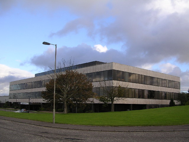 Harper-Collins Offices. Harper-Collins Offices at Bishopbriggs